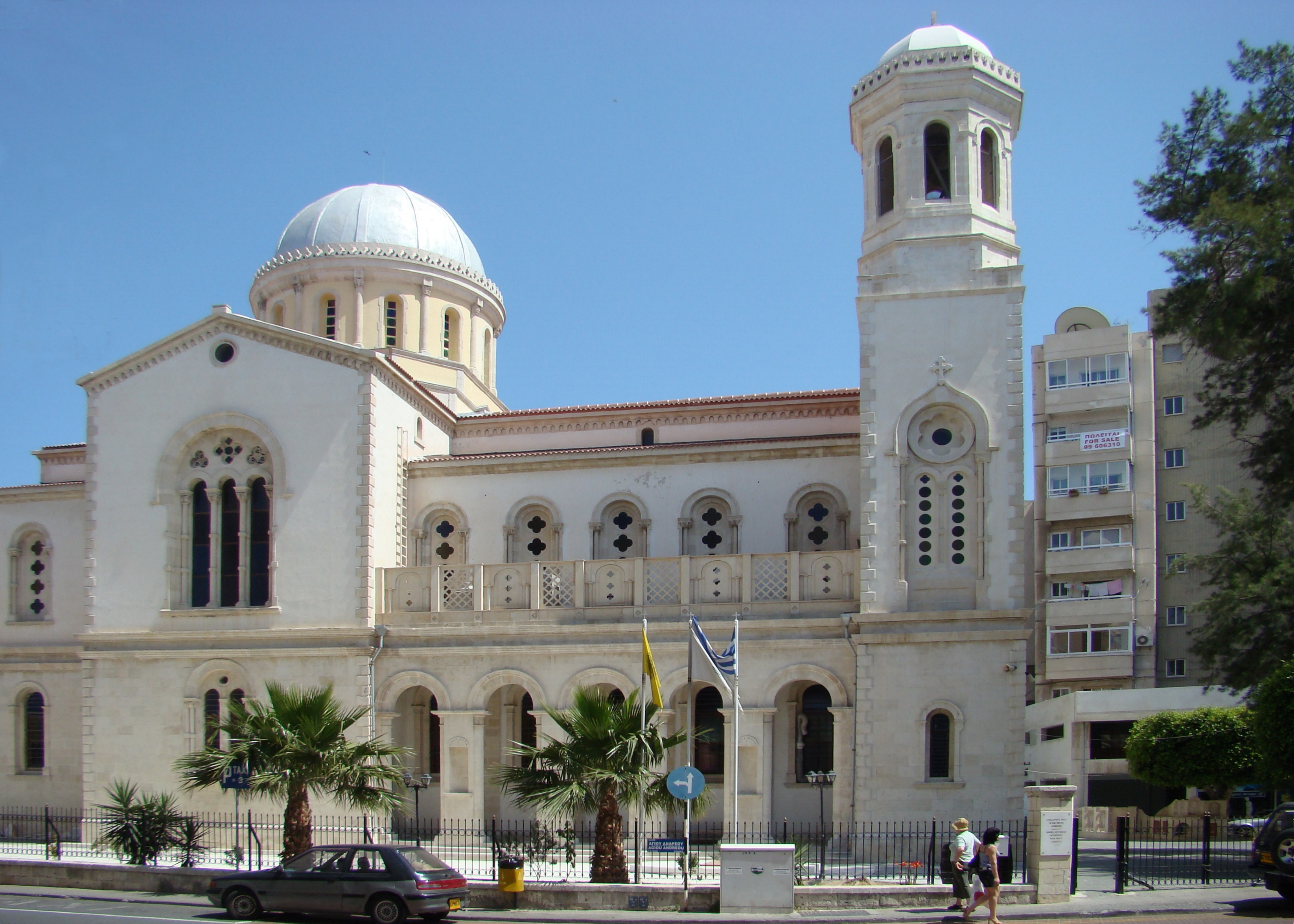 The Orthodox cathedral Agia Napa in Limassol (Lemesos), Cyprus